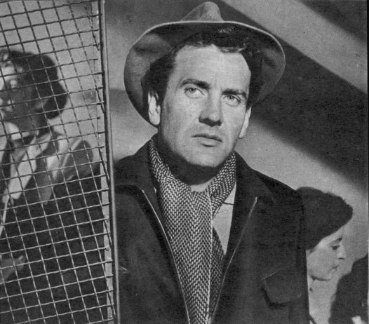 photo from Italian magazine Cinema, IV, 77, 31 December 1951, p. 358.